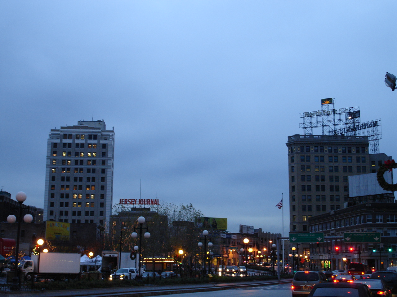 I took this photo in November 2006